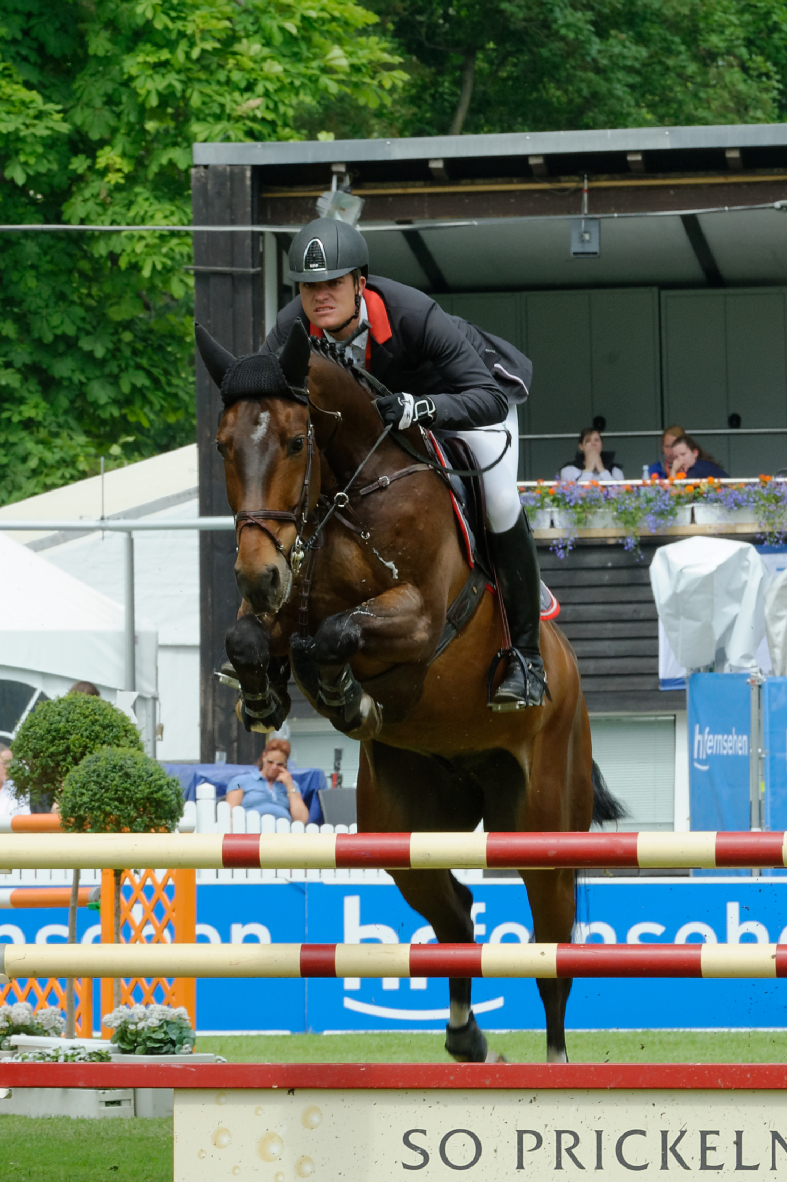 CSIYH* int. Springprüfung nach Strafpunkten und Zeit Internationales Pfingstturnier Wiesbaden 2015 The making of this document was supported by the Community-Budget of Wikimedia Germany.